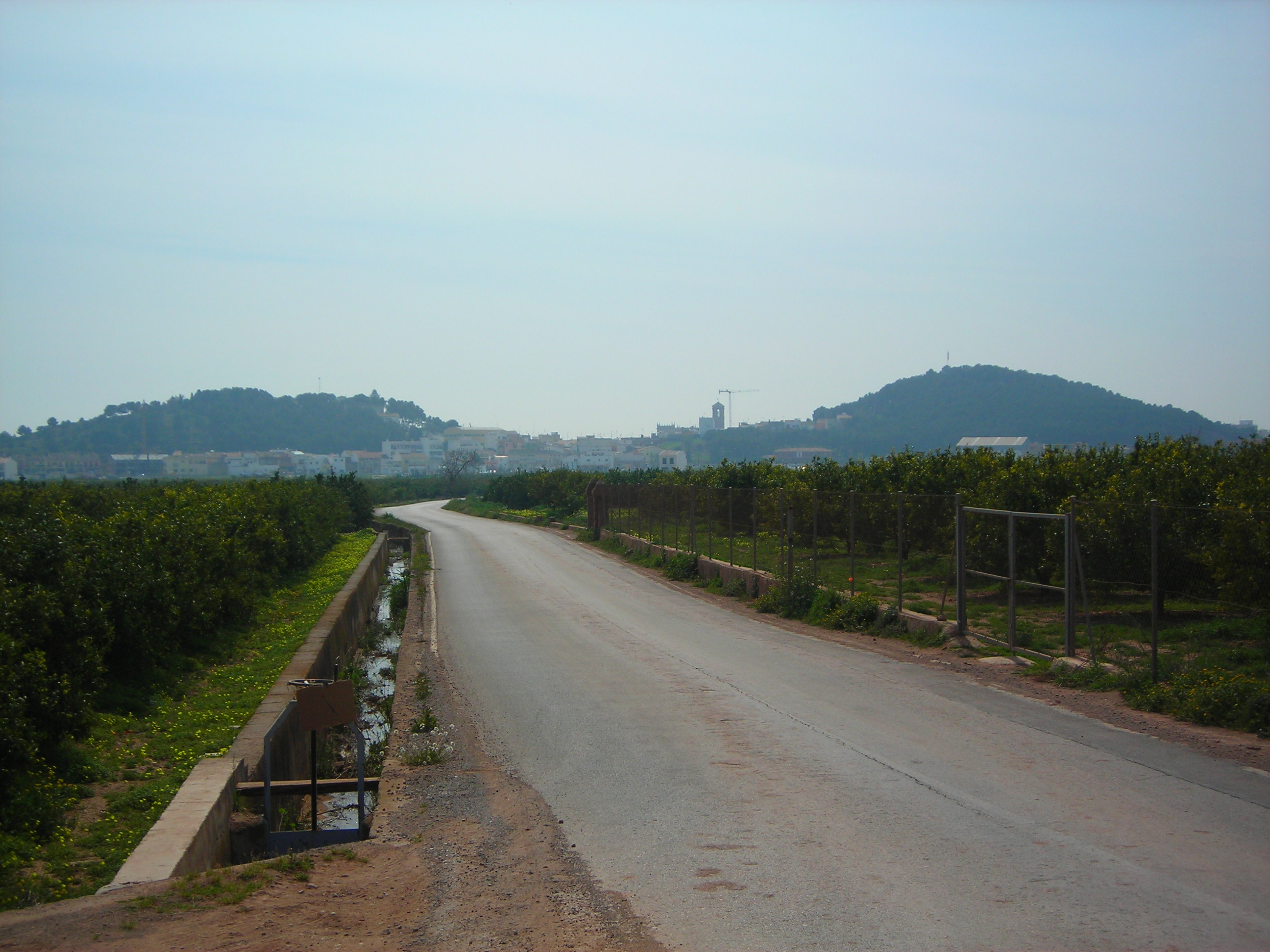 View of the two hill of El Puig, Valencia